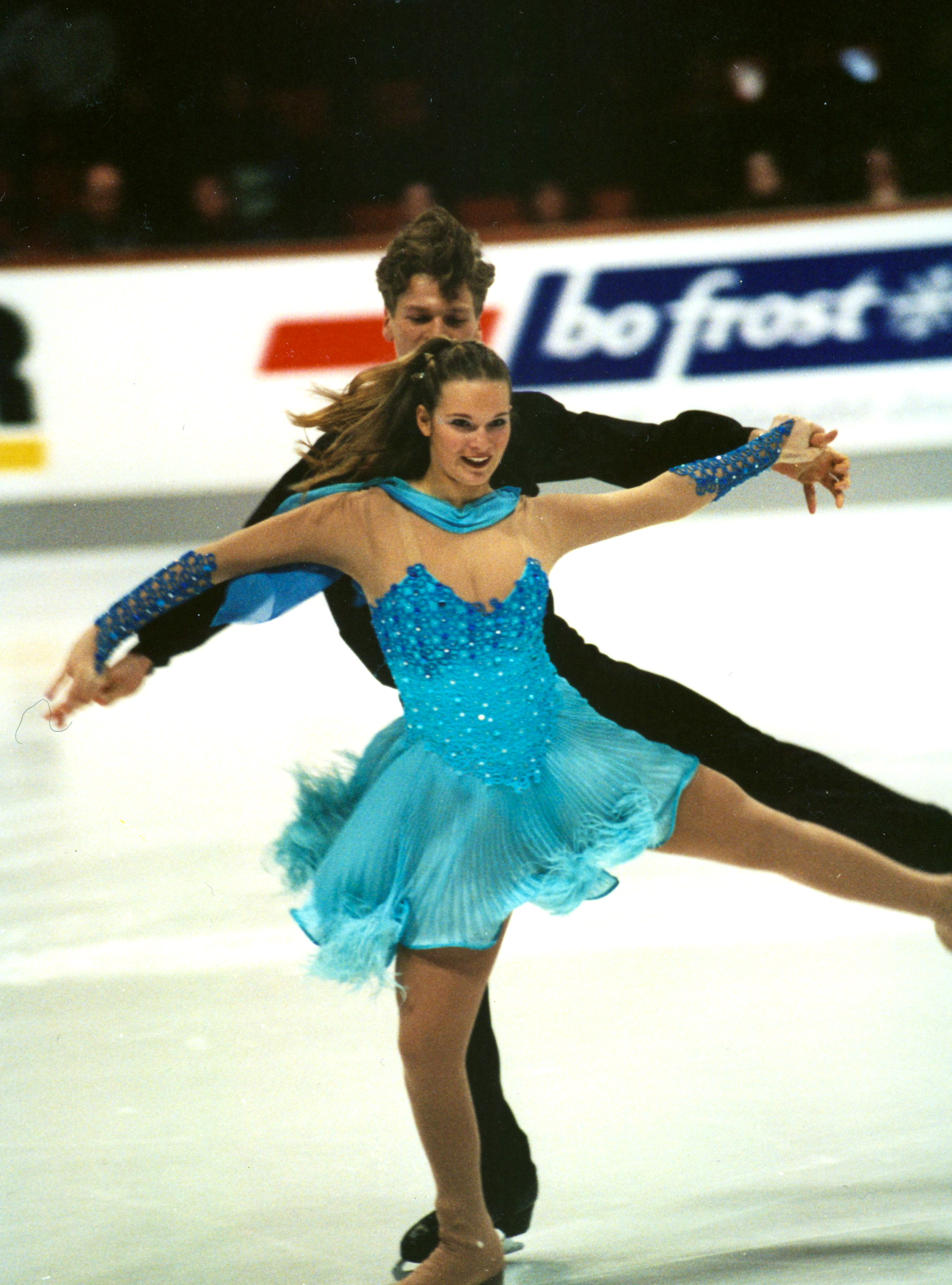 Original Dance